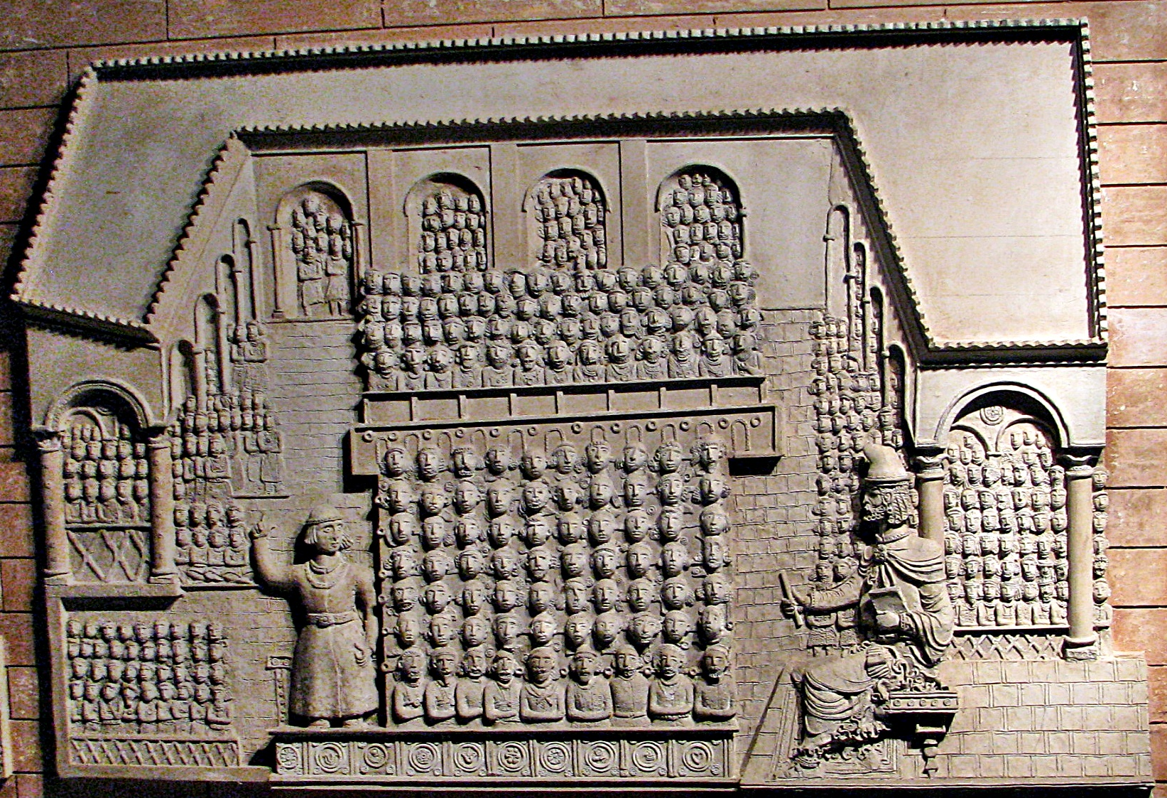 An exhibit depicting Rav Ashi / Rabbi Ashi teaching at the Sura Academy at the Diaspora Museum, Tel Aviv Beit Hatefutsot.